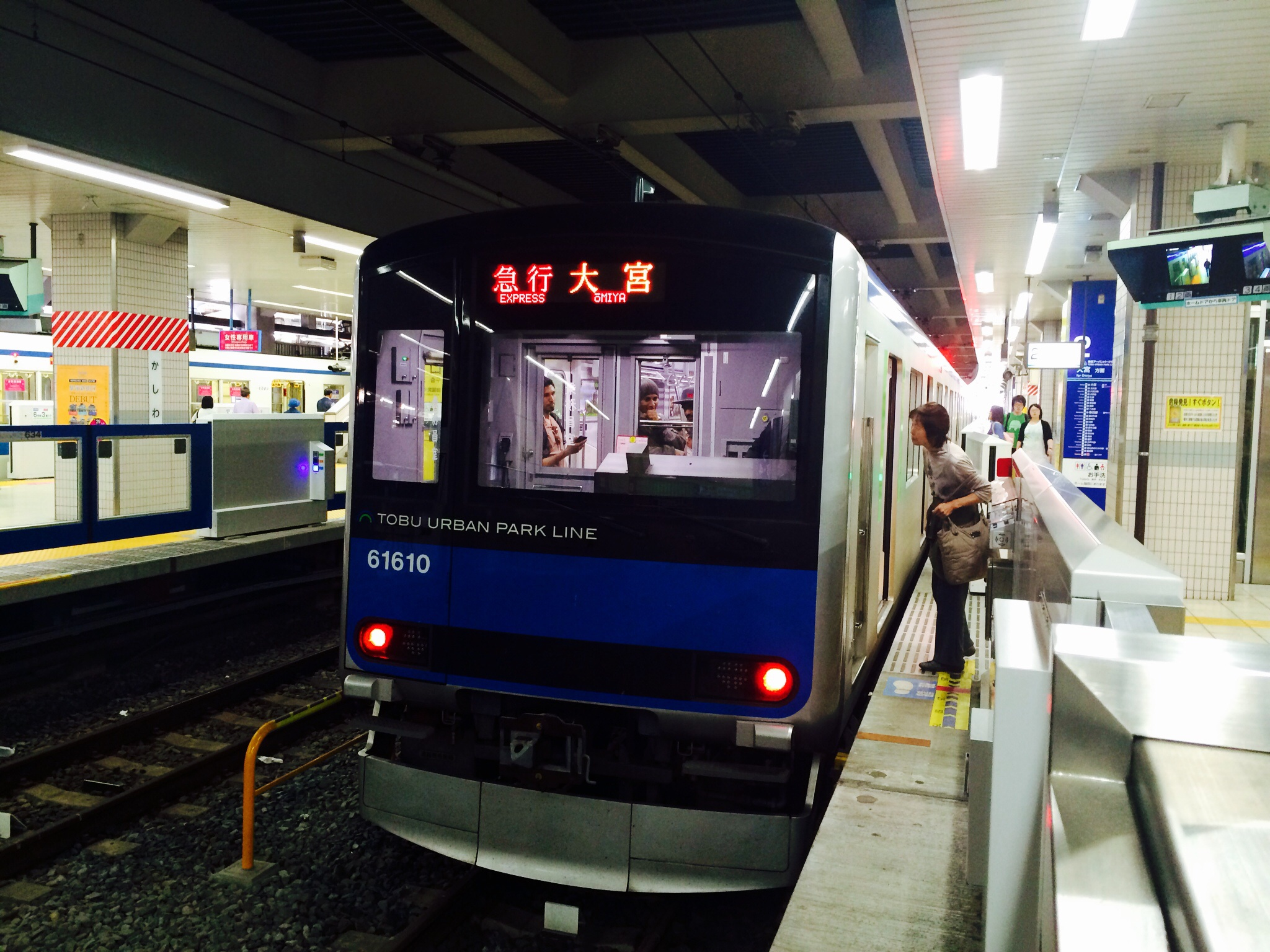 Tobu 60000 series EMU set 61610 at Kashiwa Station on a Tobu Urban Park Line express service to Omiya